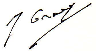 Julien Gracq's signature